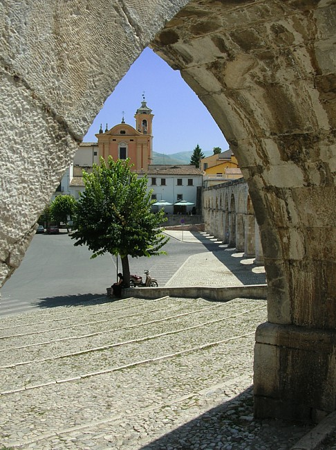 Sulmona, Piazza Garibaldi Picture taken by user:Idéfix july 2005